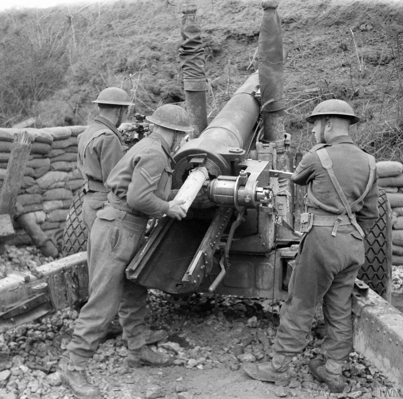 The British Army in Italy 1944 A charge is inserted into the breech of a 5.5-inch gun of 102nd Medium Regiment (Pembroke Yeomanry), 2 March 1944.